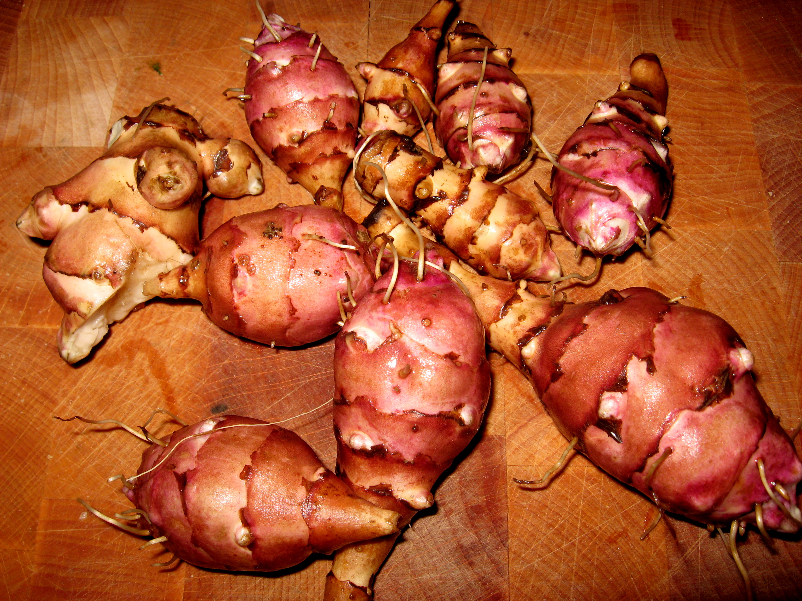 Jerusalem artichokes